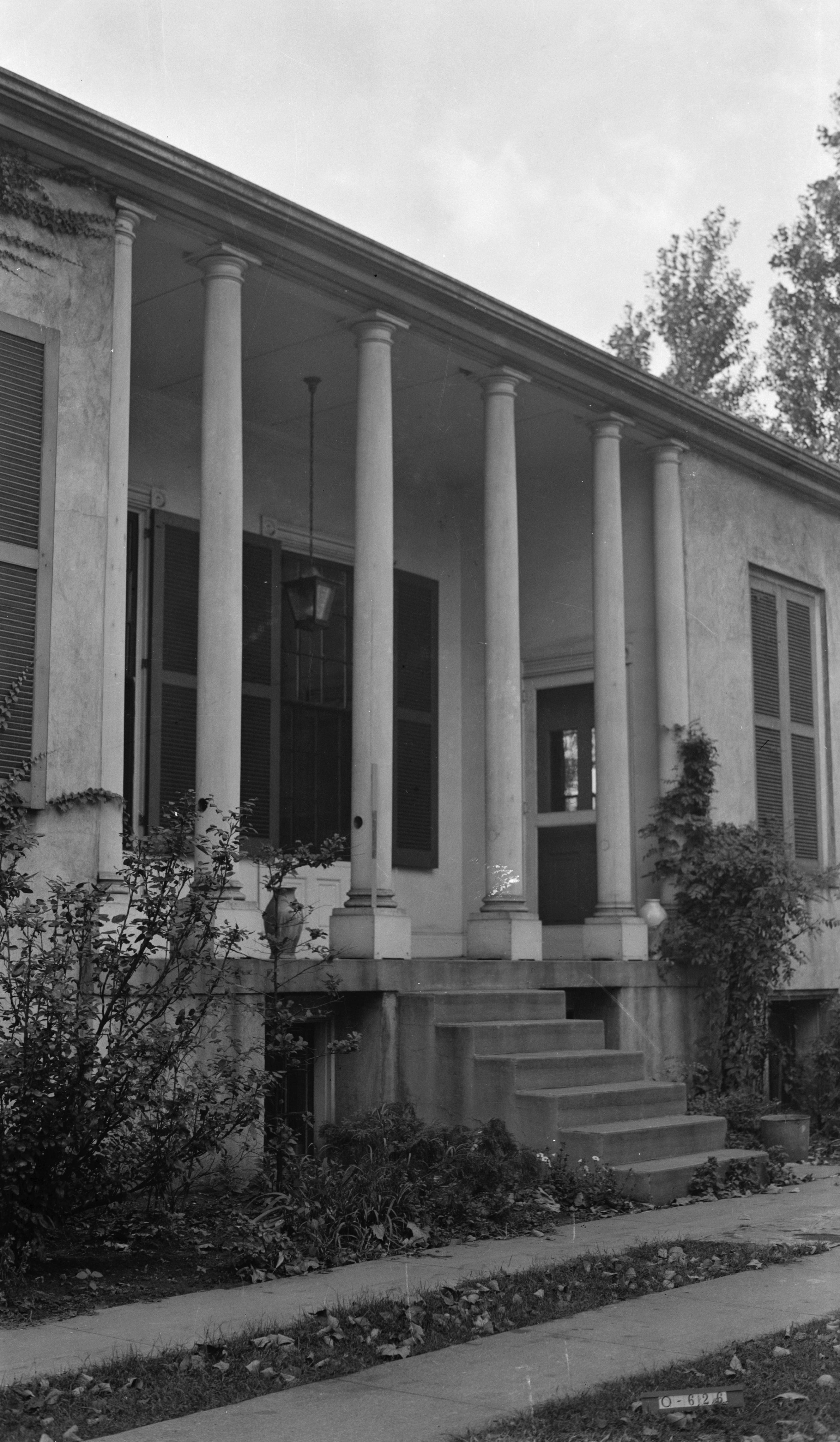 Porch at Elmwood Hall, located at 246 Forest Avenue in Ludlow, Kentucky, United States. Built in 1818, it is listed on the National Register of Historic Places.